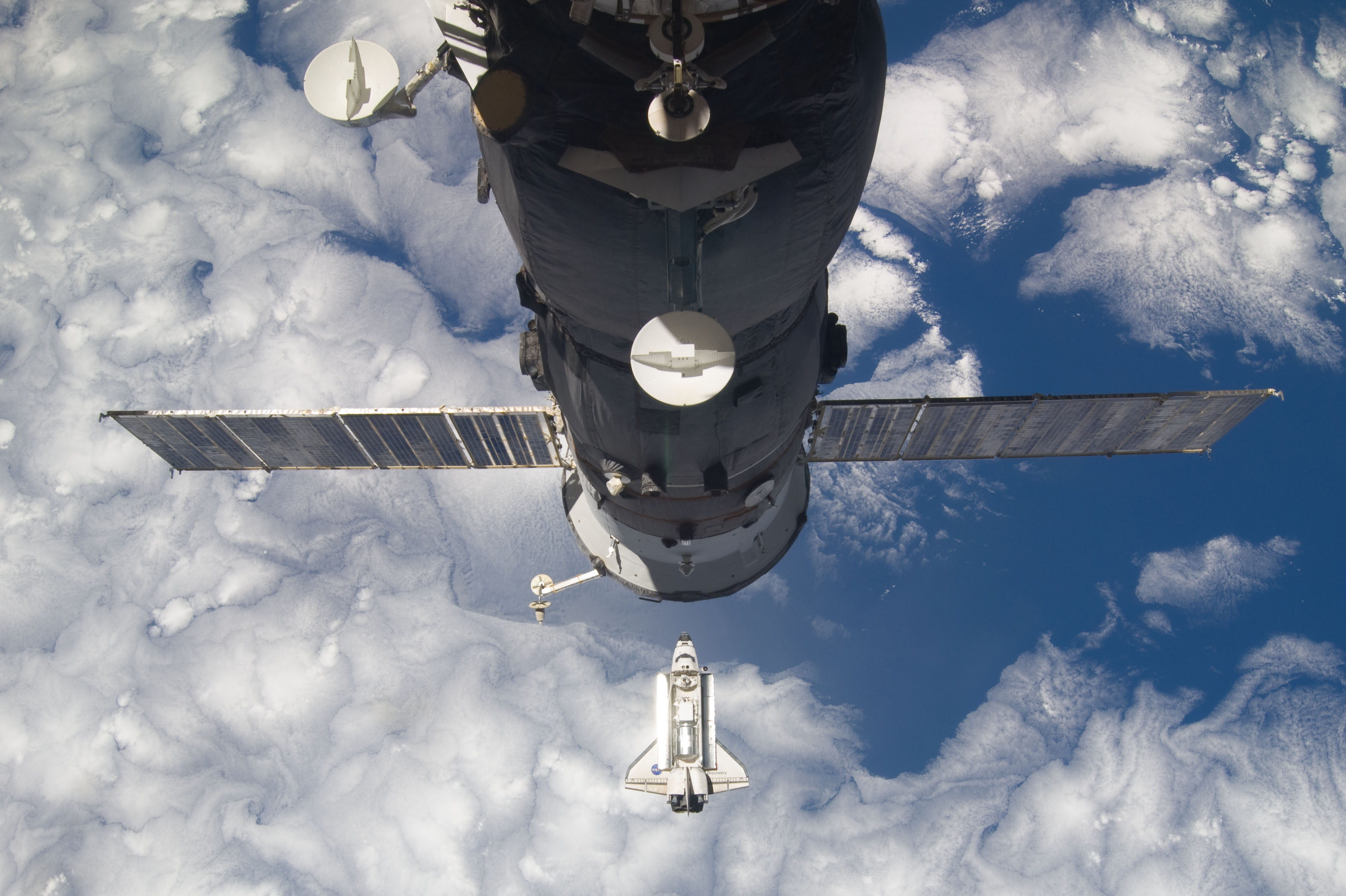 Backdropped by a blue and white part of Earth, space shuttle Discovery is featured in this image photographed by an Expedition 26 crew member as the shuttle approaches the International Space Station during STS-133 rendezvous and docking operations. Docking occurred at 2:14 p.m. (EST) on Feb. 26, 2011. A Russian Progress spacecraft docked to the space station is also featured in the image.